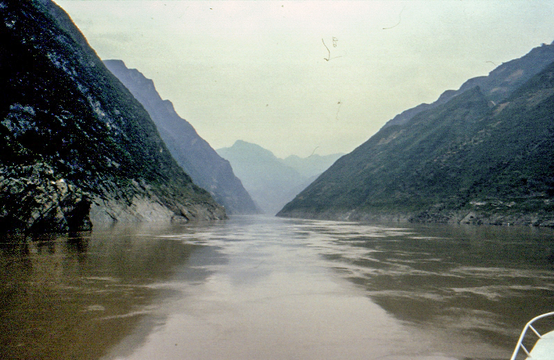 Cruising on the Yangtze, 1983